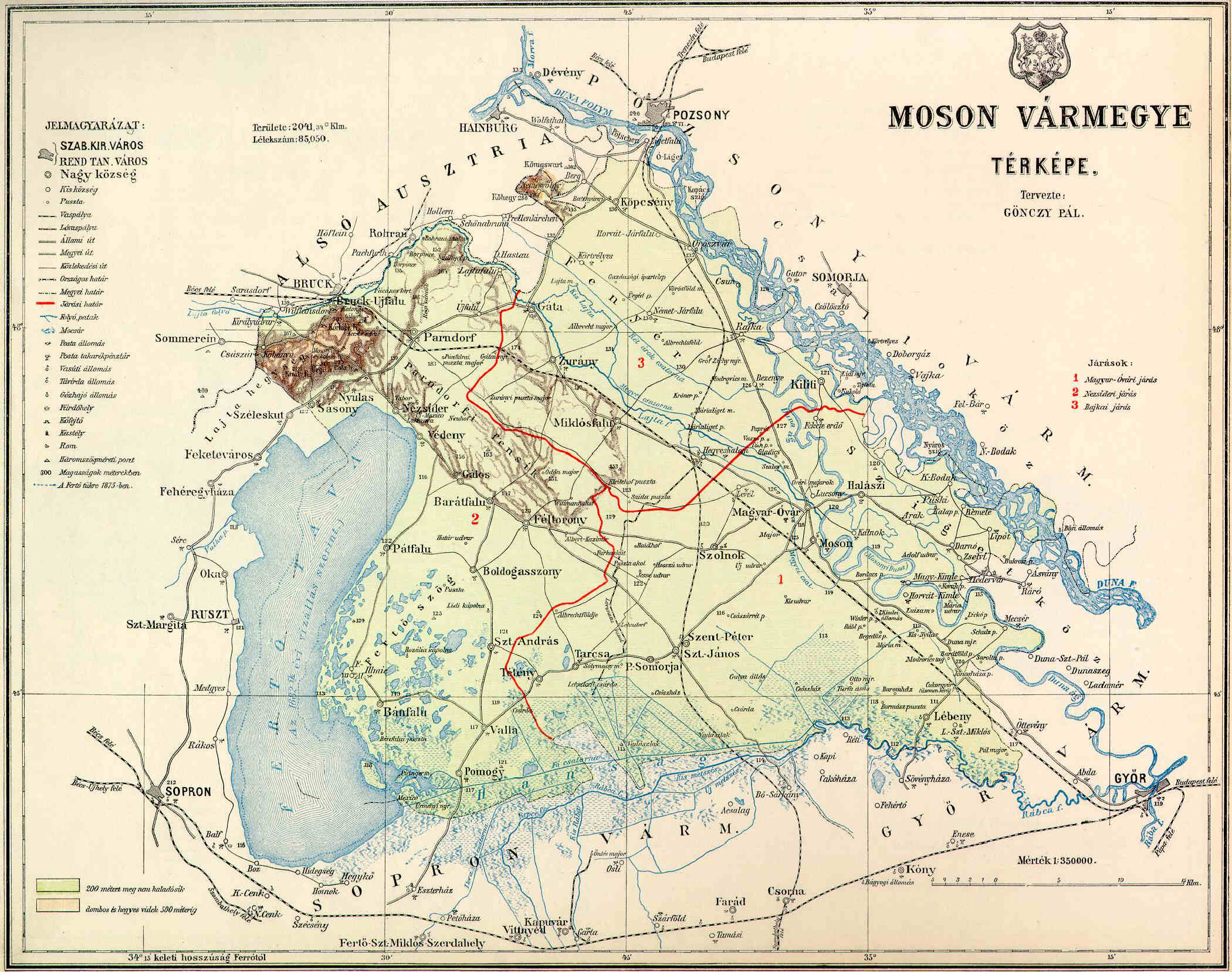 County of Moson in the pre-Trianon Kingdom of Hungary. Komitat Moson w Królestwie Węgier przed traktatem w Trianon.